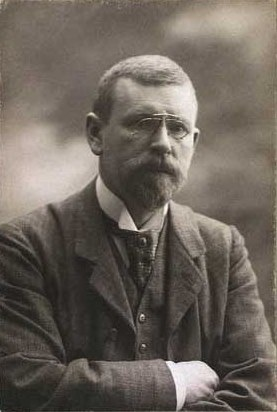 Knud Larsen (1865-1922), Danish portrait painter